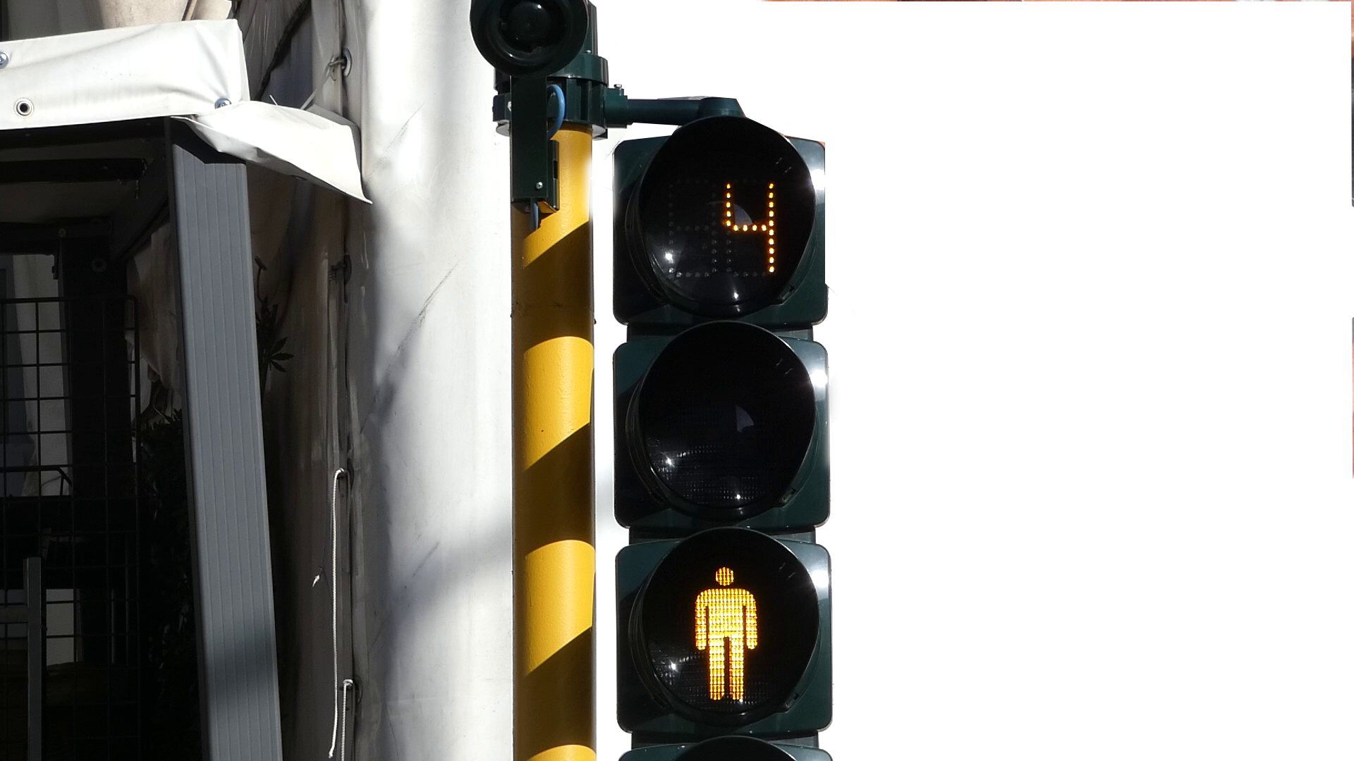 A smart traffic light in Grottaglie, Italy.